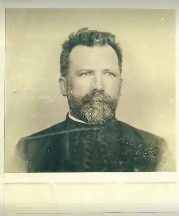 Fotography of the Romanian politician Grigore Pletosu, deputy in the Great National Assembly from Alba Iulia, on behalf of the Eastern Orthodox Christian Deanery of Bistrița - Romania, 1918Română: Fotografie a lui Grigore Pletosu, deputat în Marea Adunare Națională de la Alba Iulia, din partea Protopopiatului ortodox Bistrița, 1918